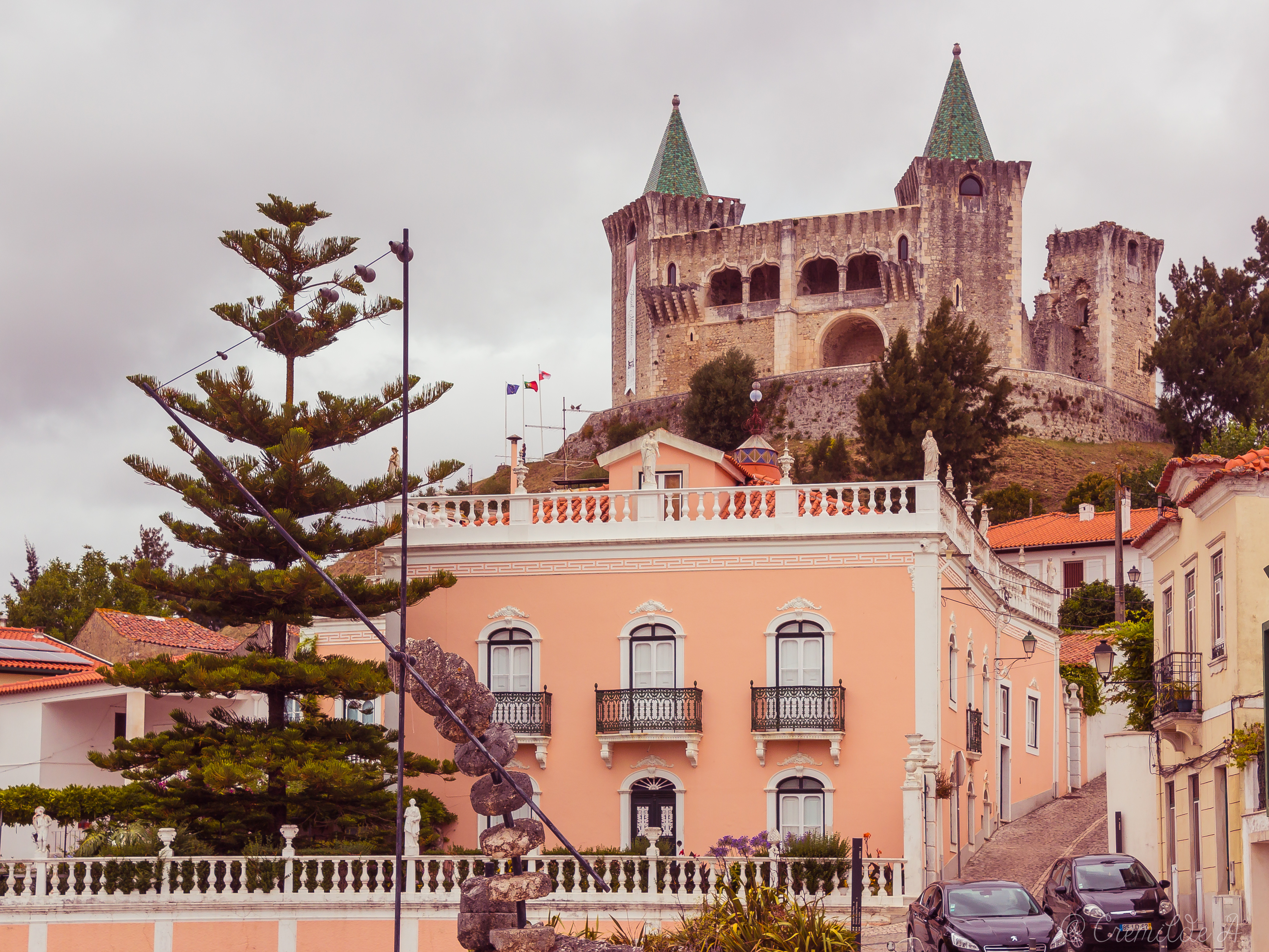 Porto de Mós et son château